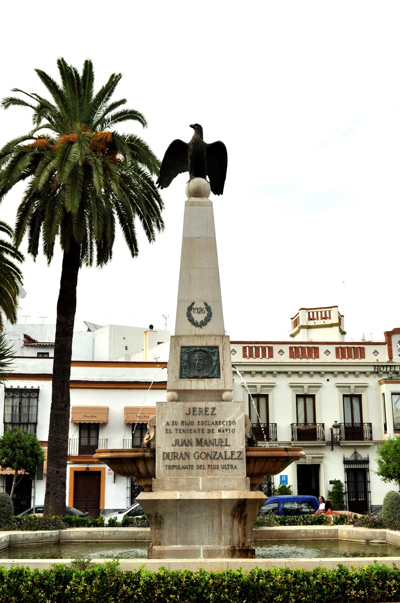 Monument to Juan Manuel Durán González, Angustias Square, Jerez Monument to Juan Manuel Durán González, Angustias Square, Jerez